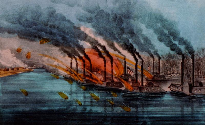 TITLE: "Bombardment and capture of Fort Henry, Tenn." (Battle of Fort Henry): U.S. Federal gunboats under command of commodore Andrew H. Foote, February 6, 1862.